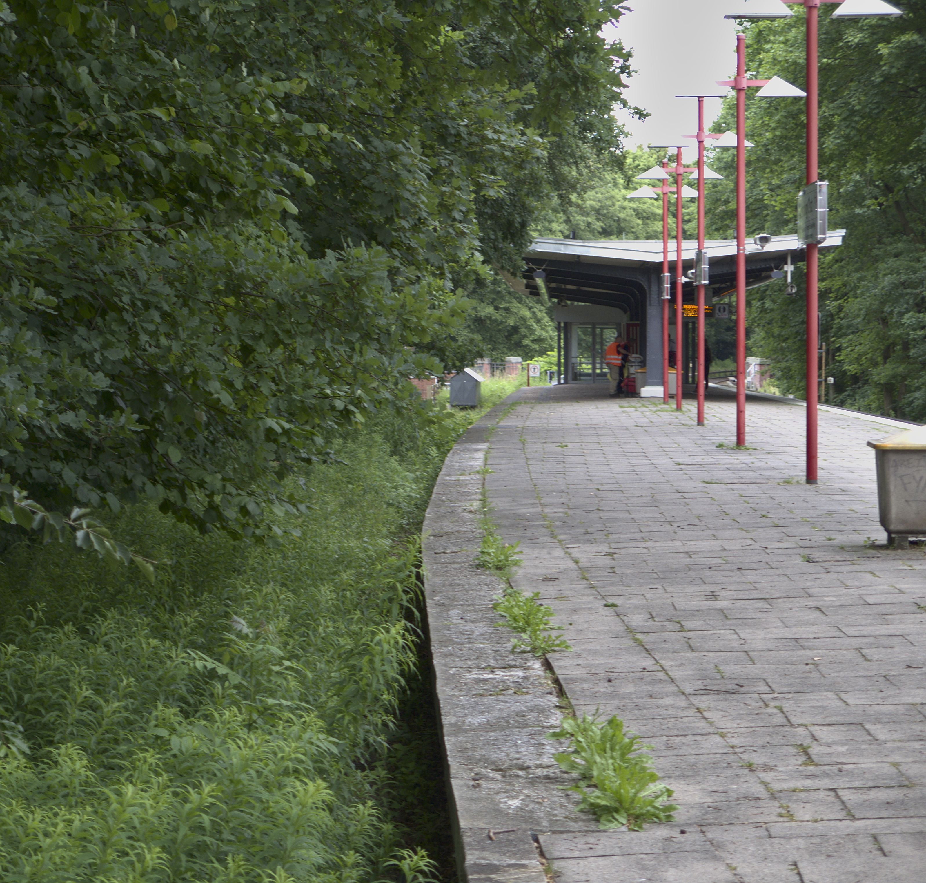 The unused northern railbed in the station Ahrensburg Ost.